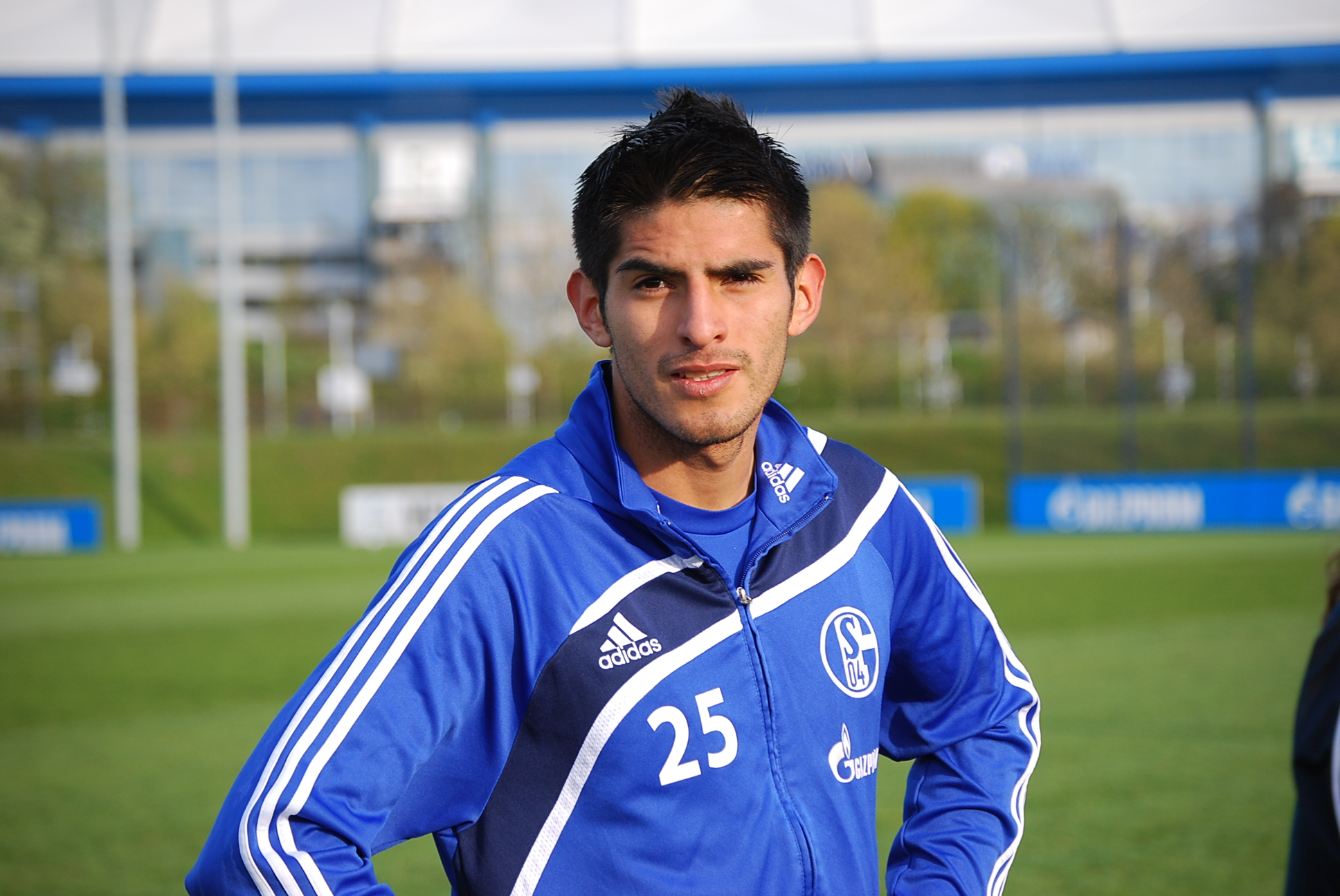 Carlos Zambrano, Peruvian footballer, when playing for FC Schalke 04